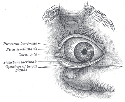 human eye